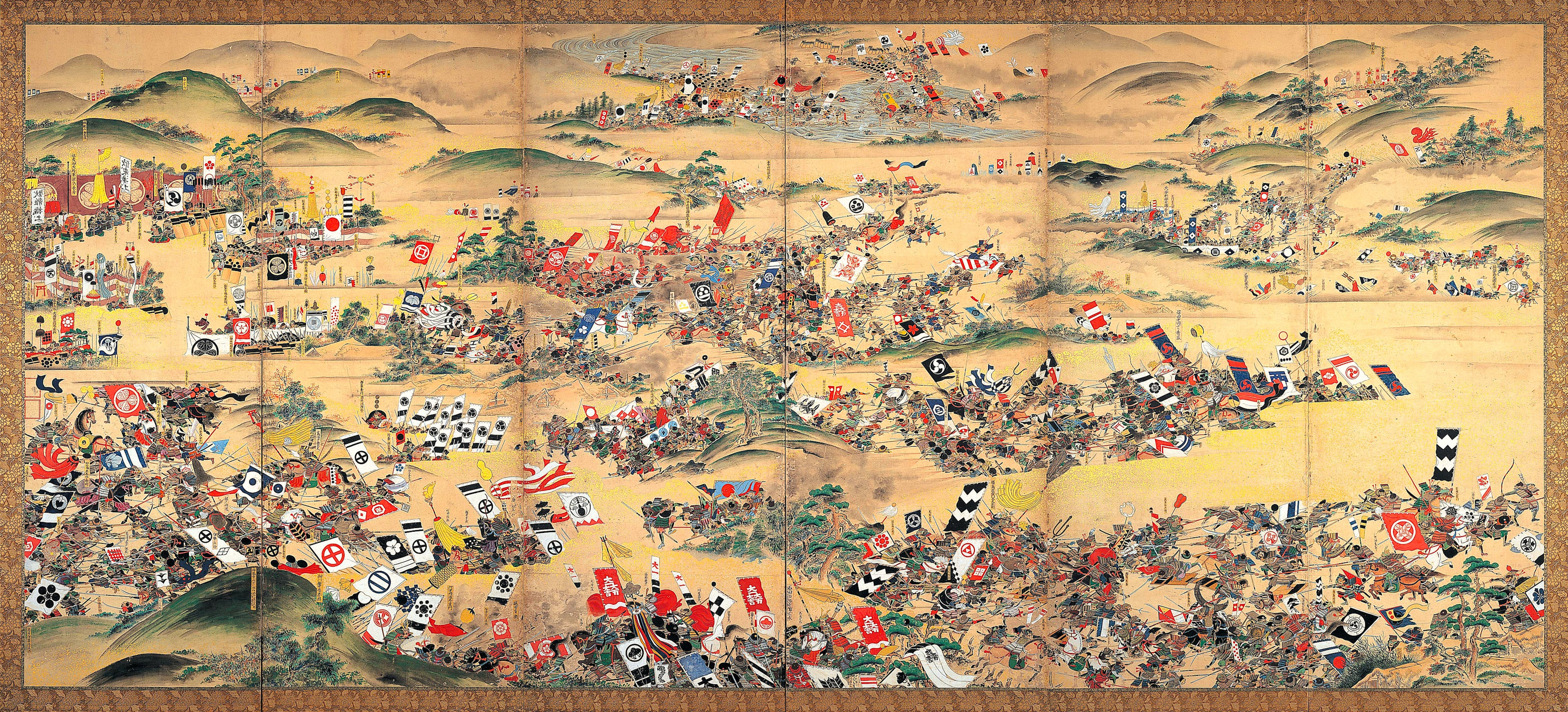 Sekigahara Kassen Byōbu (『関ヶ原合戦屏風』), Japanese screen depicting the Battle of Sekigahara (関ヶ原の戦い). This layout is considered rare since it is the only one of the many Sekigahara screens which shows the battlefield from the North. Collection of The City of Gifu Museum of History (岐阜市歴史博物館蔵収蔵). The late Edo Era (江戸時代後期).